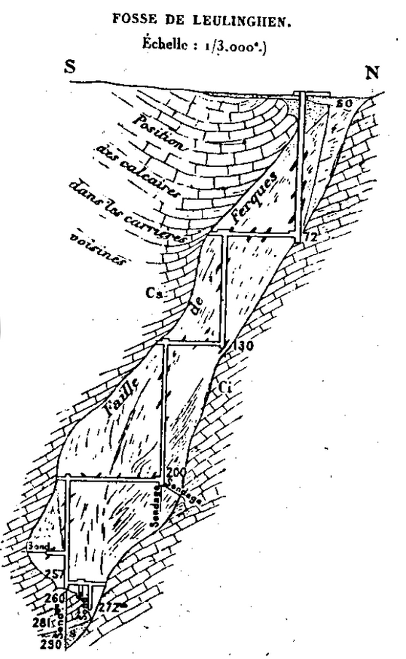 Pit de Leulinghen at Leulinghen-Bernes, Pas-de-Calais, France. Opened from 1848 to 1852.